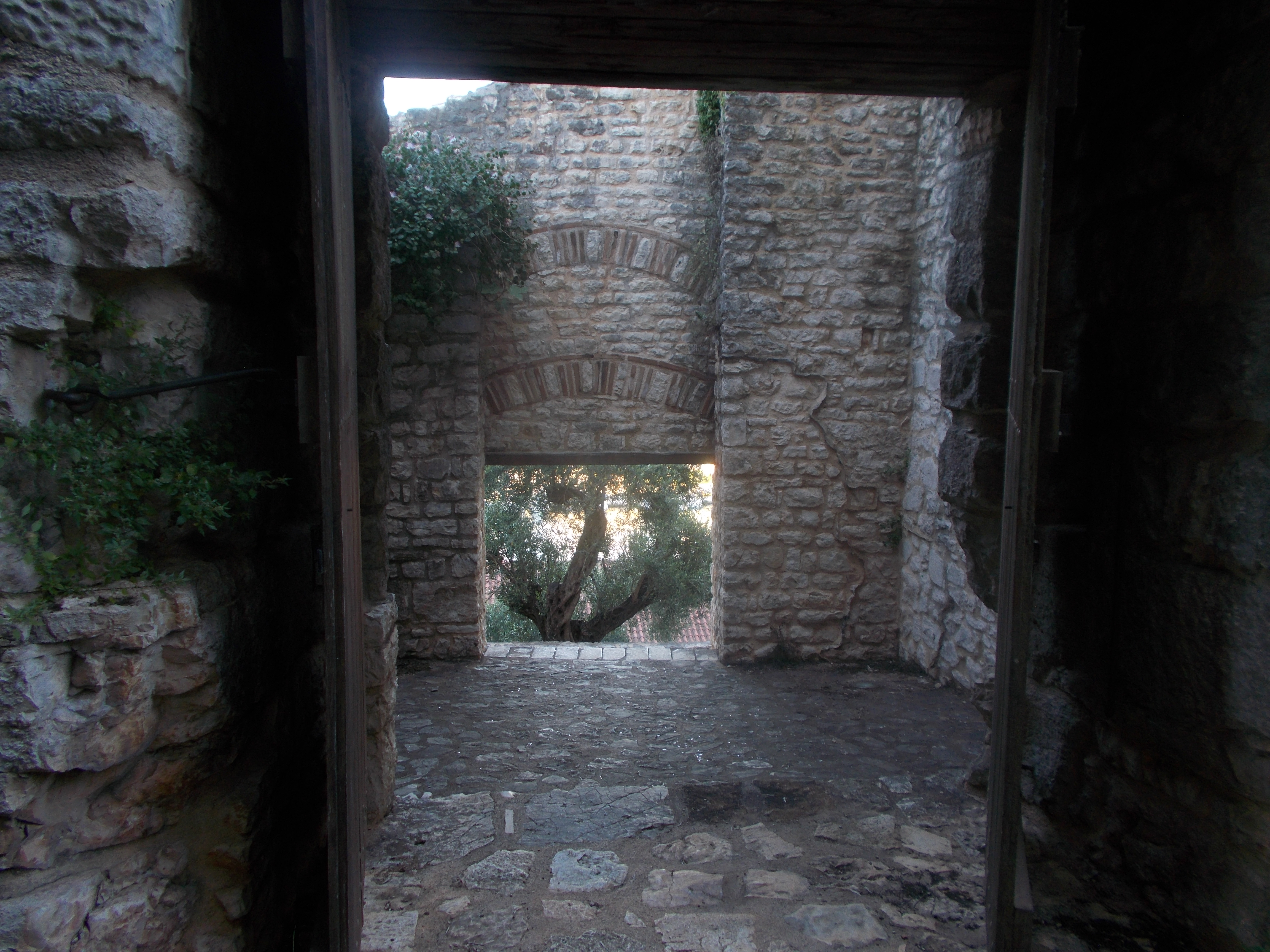 Rear view of Main Gate of Kassiopi Castle